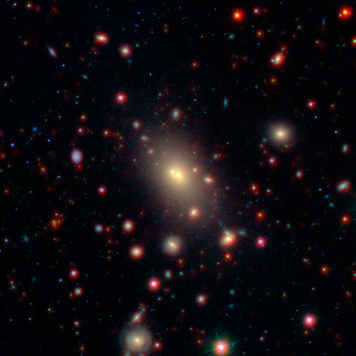 This image shows the galaxy cluster observed by NASA's Wide-field Infrared Survey Explorer (WISE) and Spitzer Space Telescope missions.